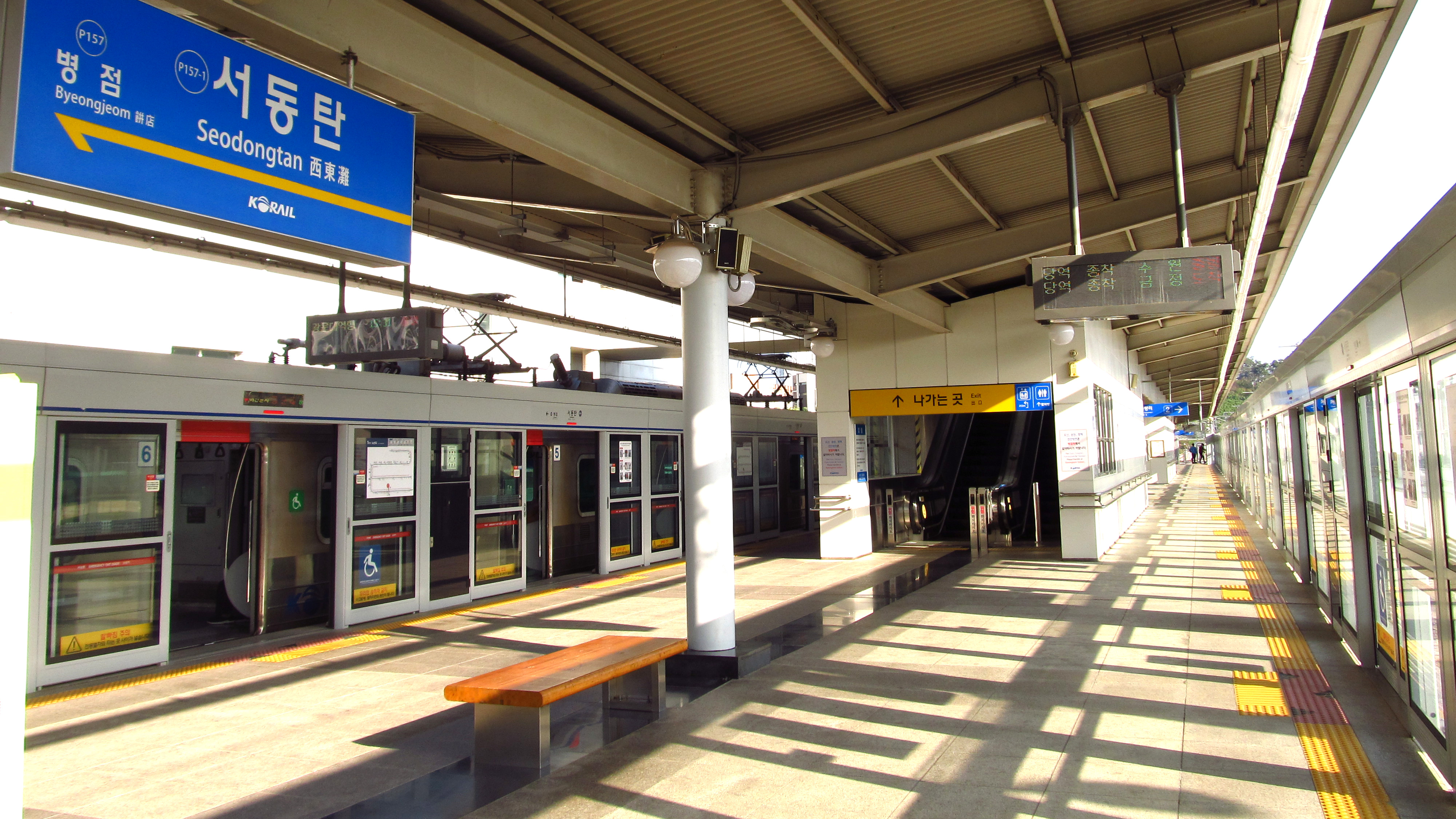 The platform at Seodongtan Station on Seoul Subway Line 1(Gyeongbu Line) in Osan city, Gyeonggi-do(province), Republic of Korea(South Korea)